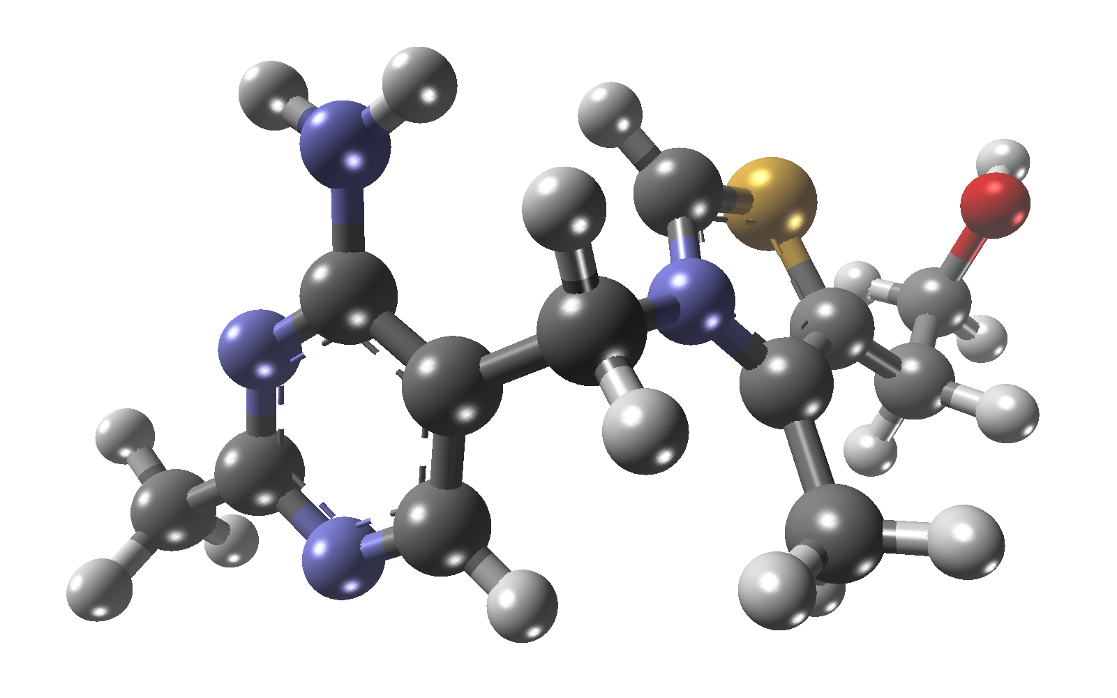 Thiamine (Vitamin B1)